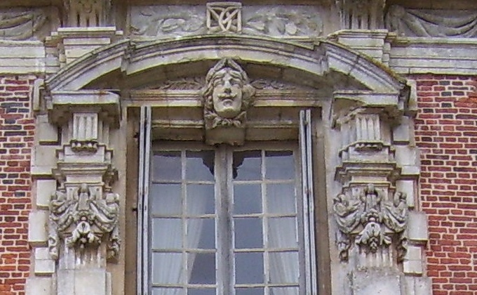 Mask of the Commedia dell'arte on the façade of Beaumesnil castle (in Beaumesnil, Eure, France).